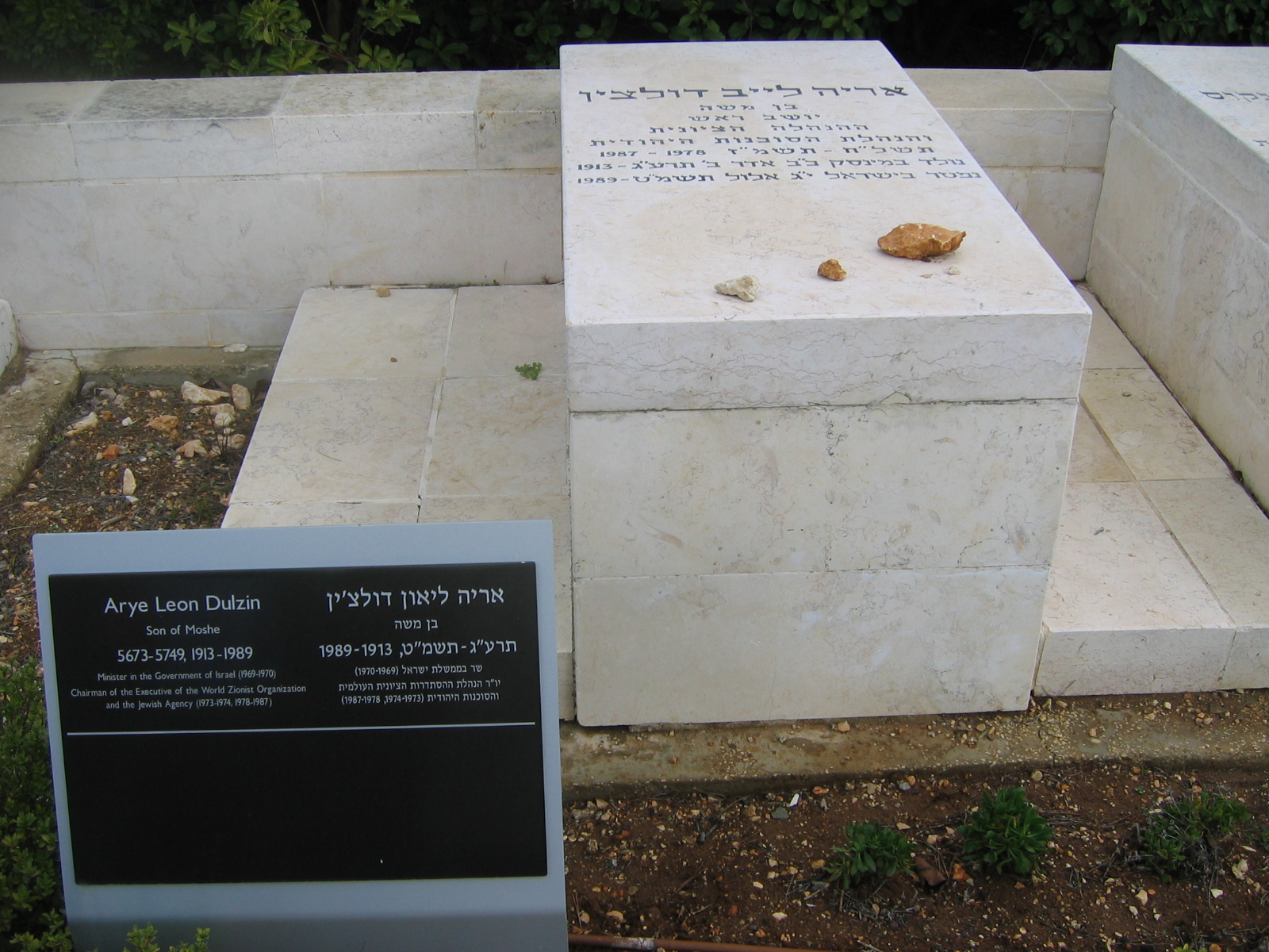 Arye Leon Dulzin's grave